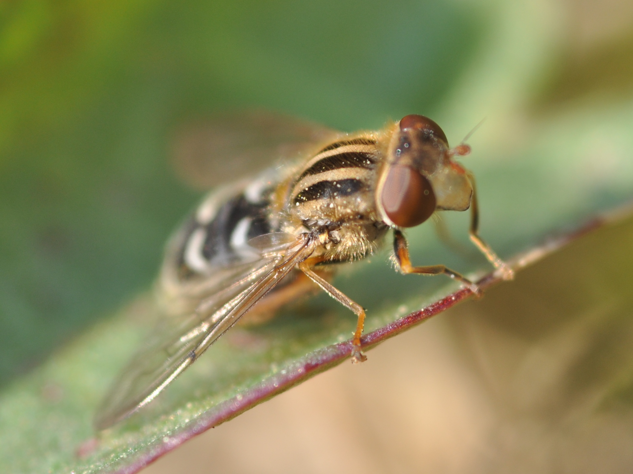 Hoverfly Anasimyia interpunctata in Kirchwerder, Hamburg.